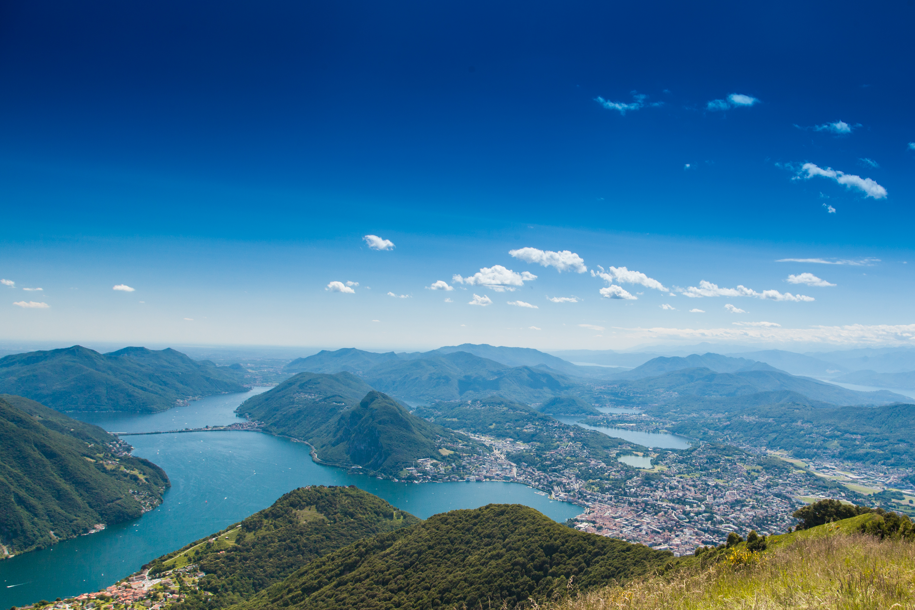 Lake Lugano from Monte Boglia